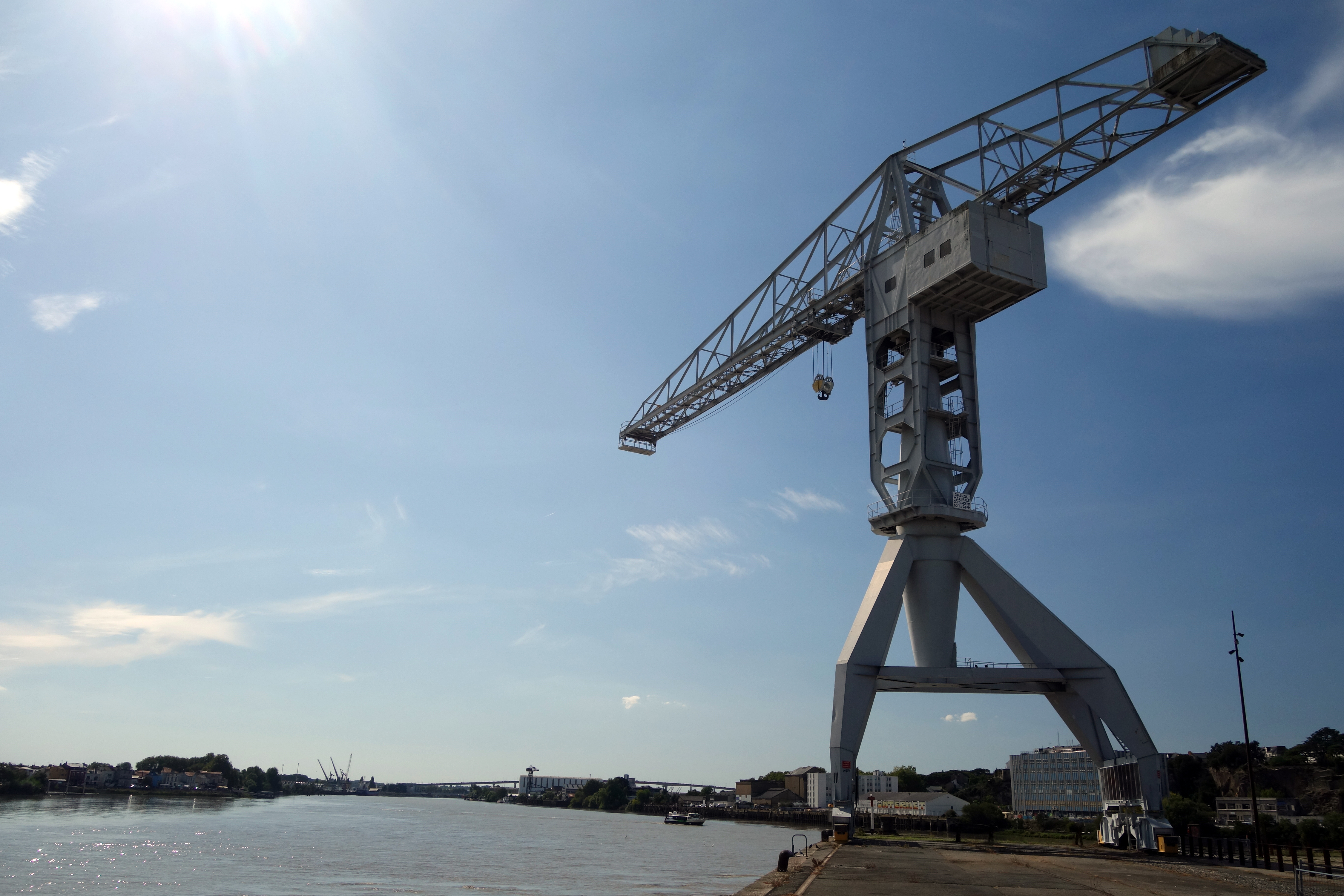 A beautiful sight of Nantes and the Loire river that reminds us that this great city has long been a major harbor on the Atlantic coast ...